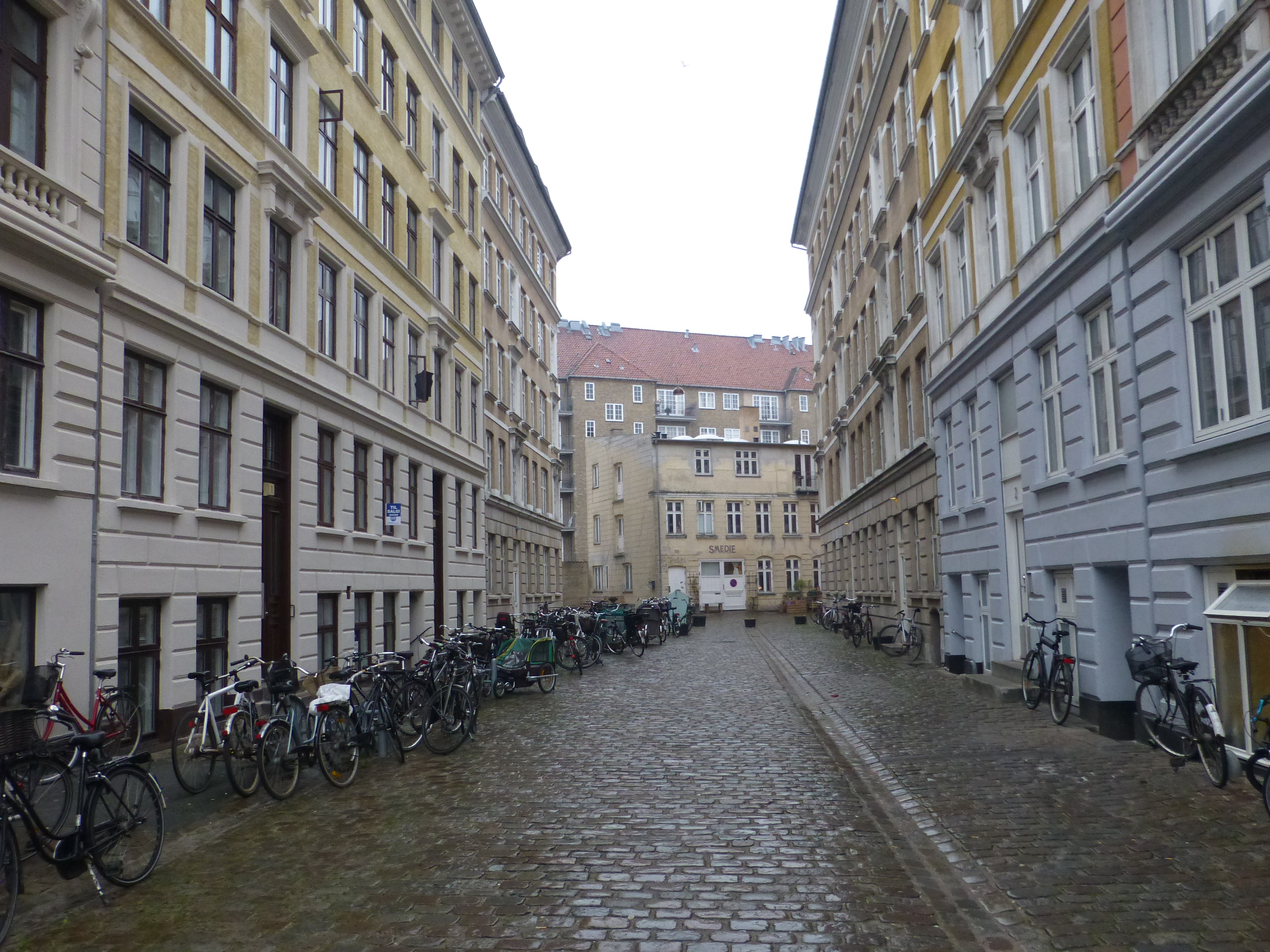 The street Lille Farimagsgade in Østerbro in Copenhagen.